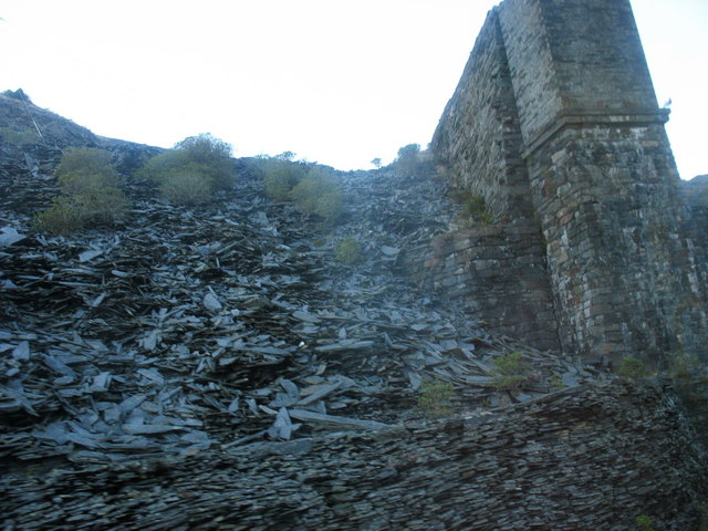 Pillars of the now demolished Pen-y-bont (Glan-y-don) viaduct This viaduct, across the L&NWR line, linked Oakeley Quarry with the Pen-y-bont Mill.